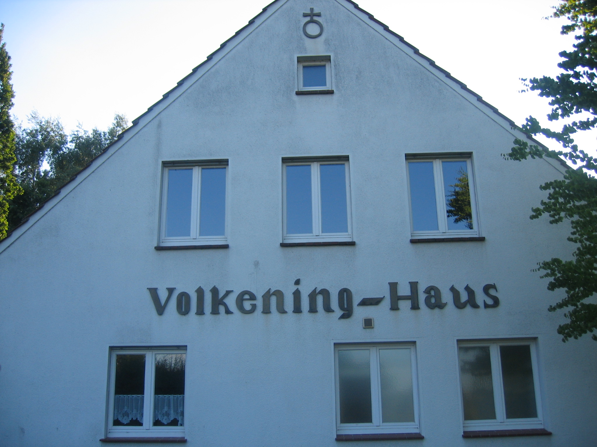 Luther church in Kirchlengern, District of Herford, North Rhine-Westphalia, Germany.